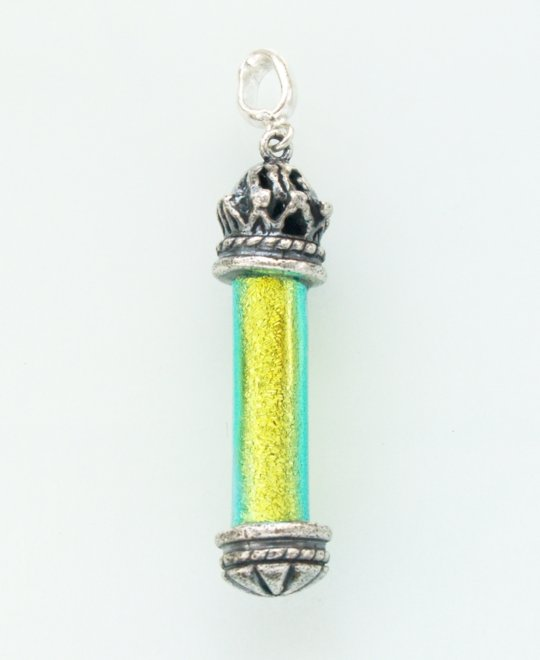 Pendant made of single-colour dichroic glass (a good example of dichroic - yellow is reflected while cyan is when light passes). Picture was made by putting the pendant on the glass with gray sheet below and in daylight